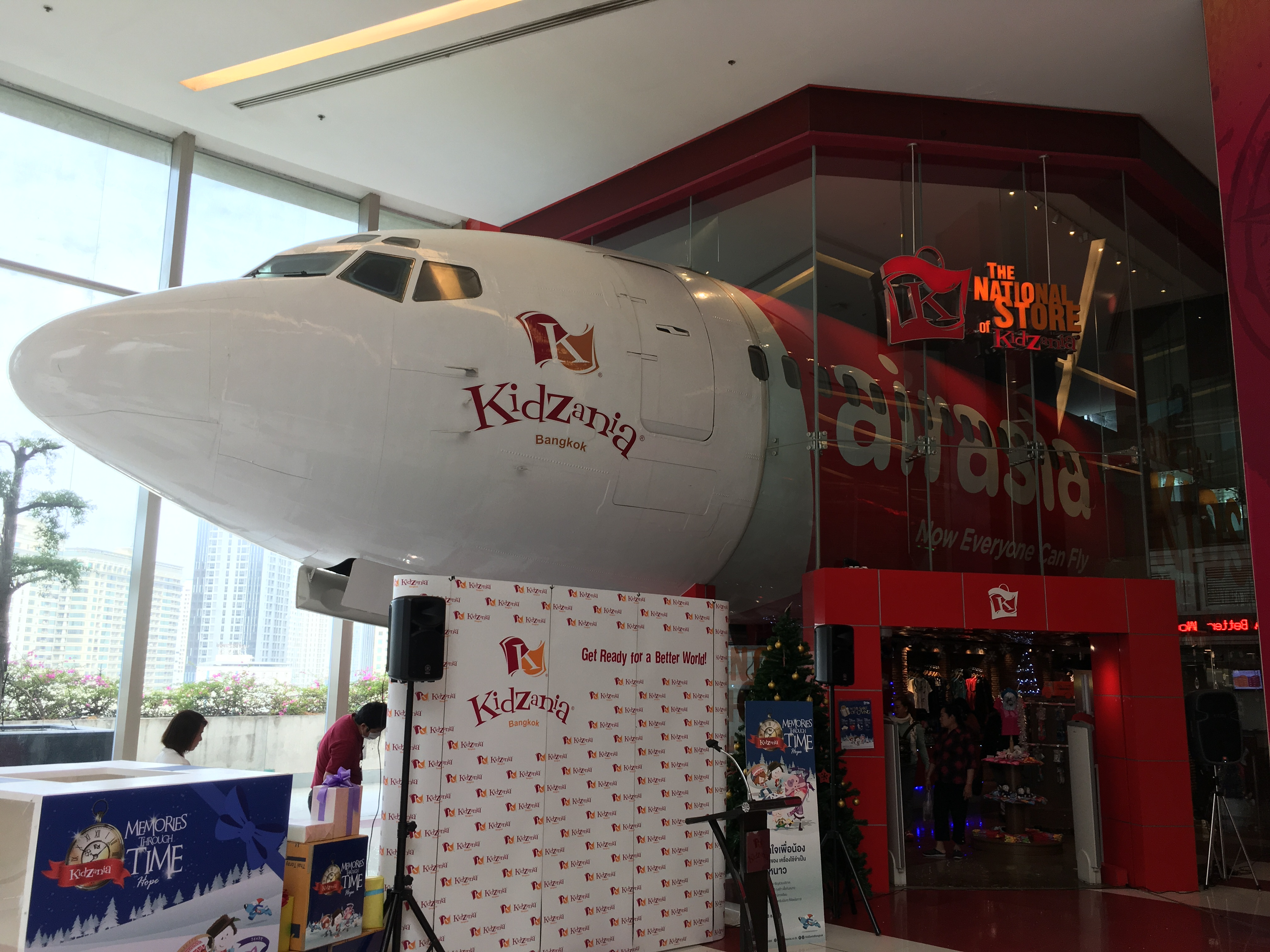 An AirAsia plane located at the entrance of Kidzania located at Siam Paragon, Bangkok, Thailand